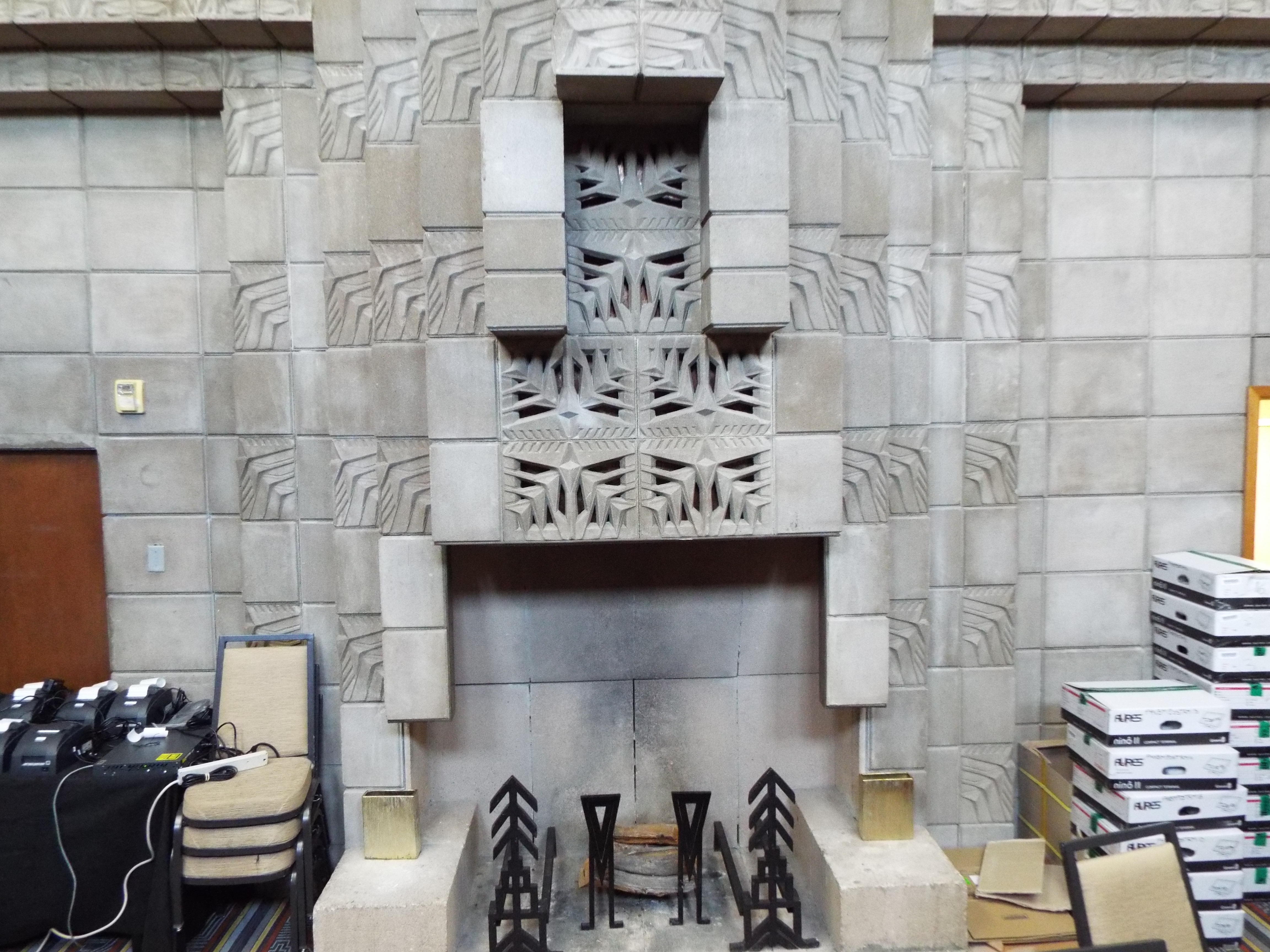 The fireplace inside the infamous speakeasy Mystery Room of the Arizona Biltmore Hotel